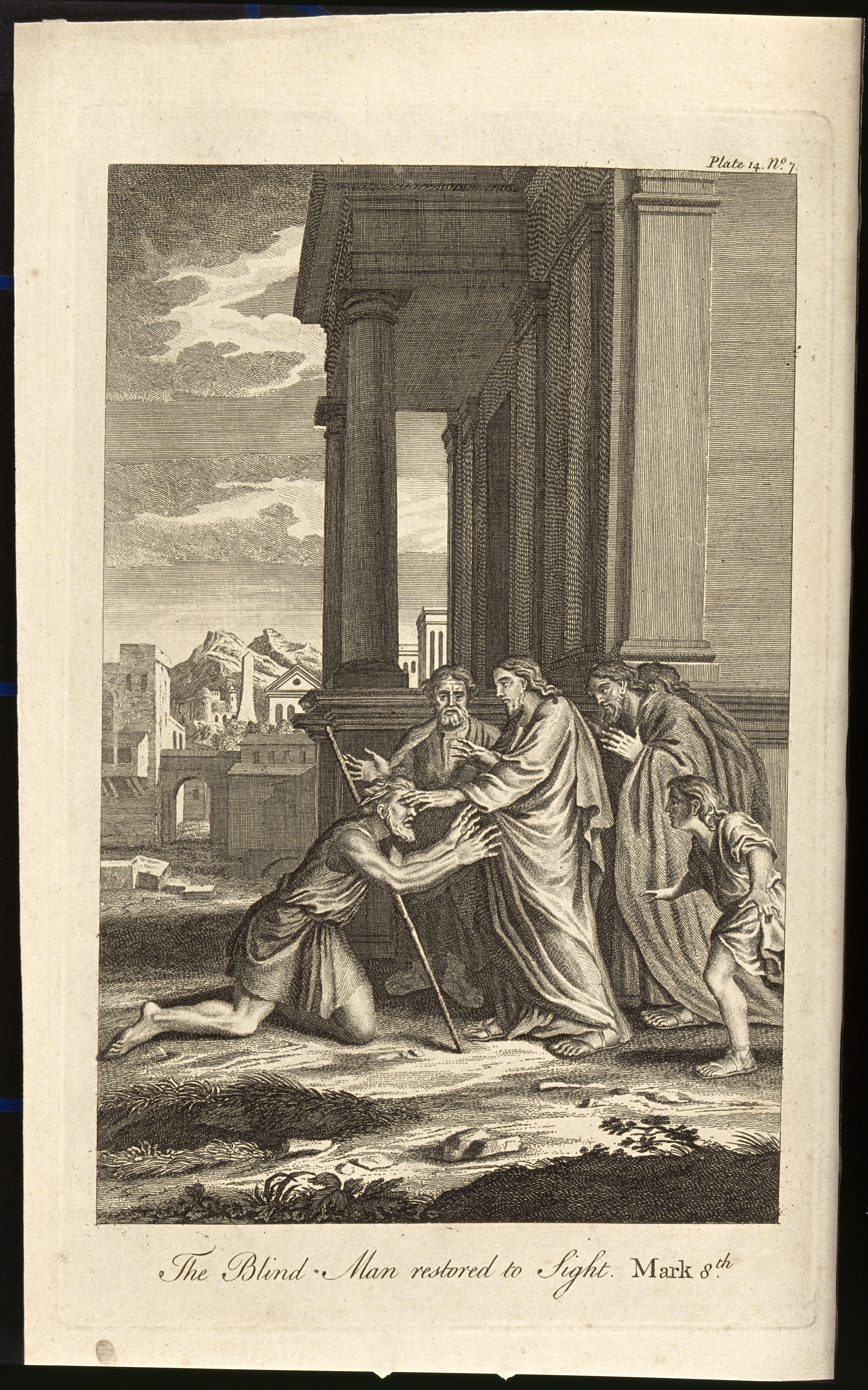 Christ cures a blind man by laying his hand on his eyes. Etching. Iconographic Collections Keywords: Jesus Christ